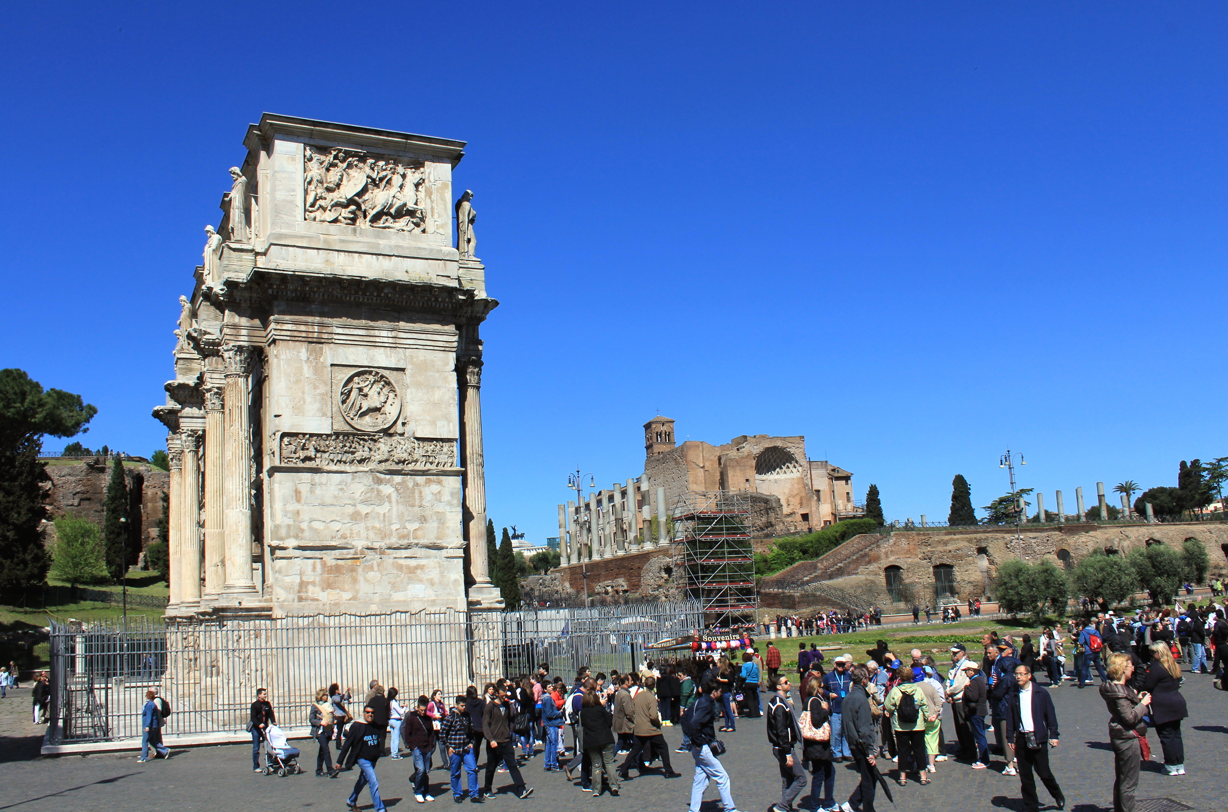 Arch of Constantine near of Colosseum, Rome, Italy